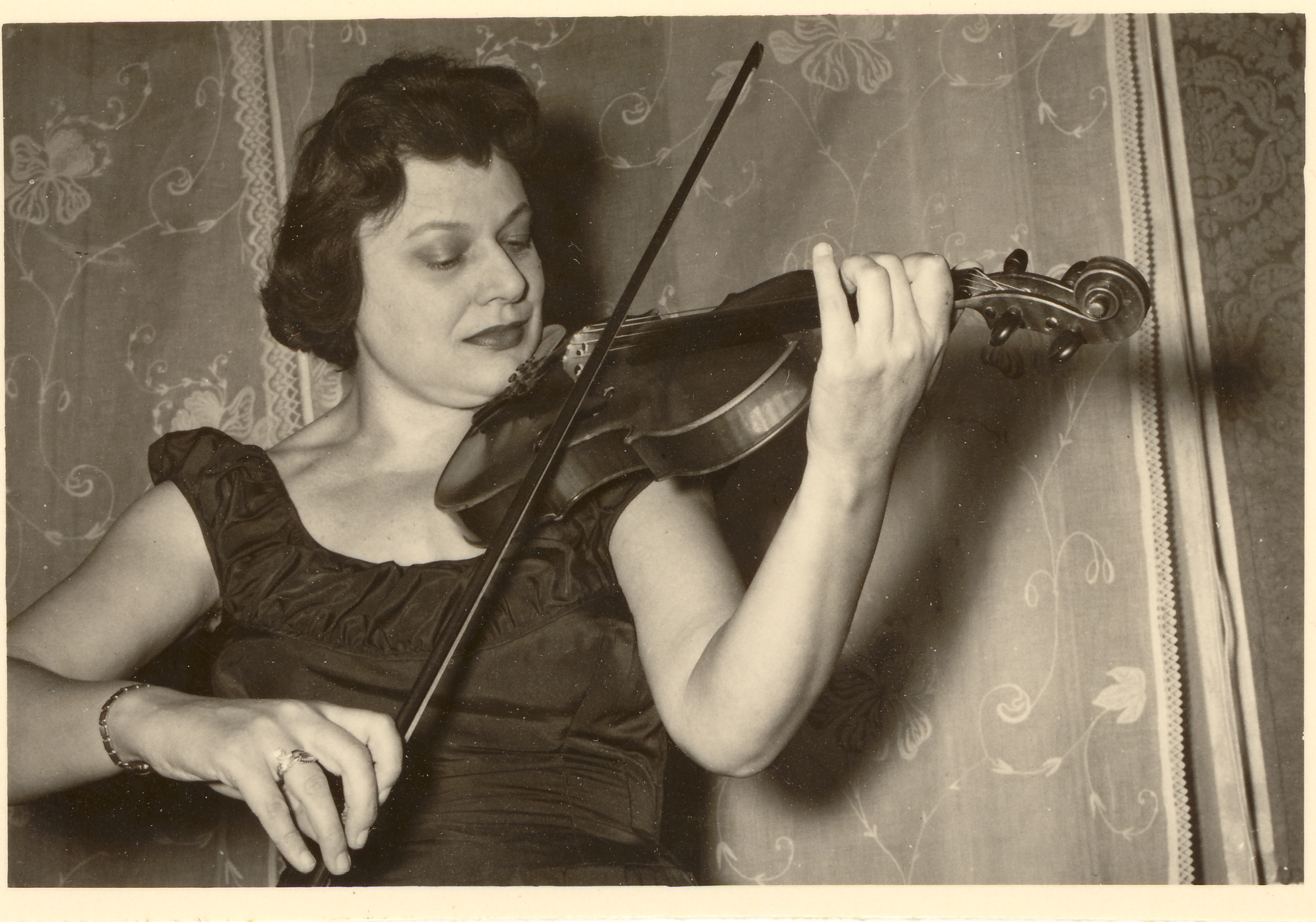 Pina Carmirelli with her violin